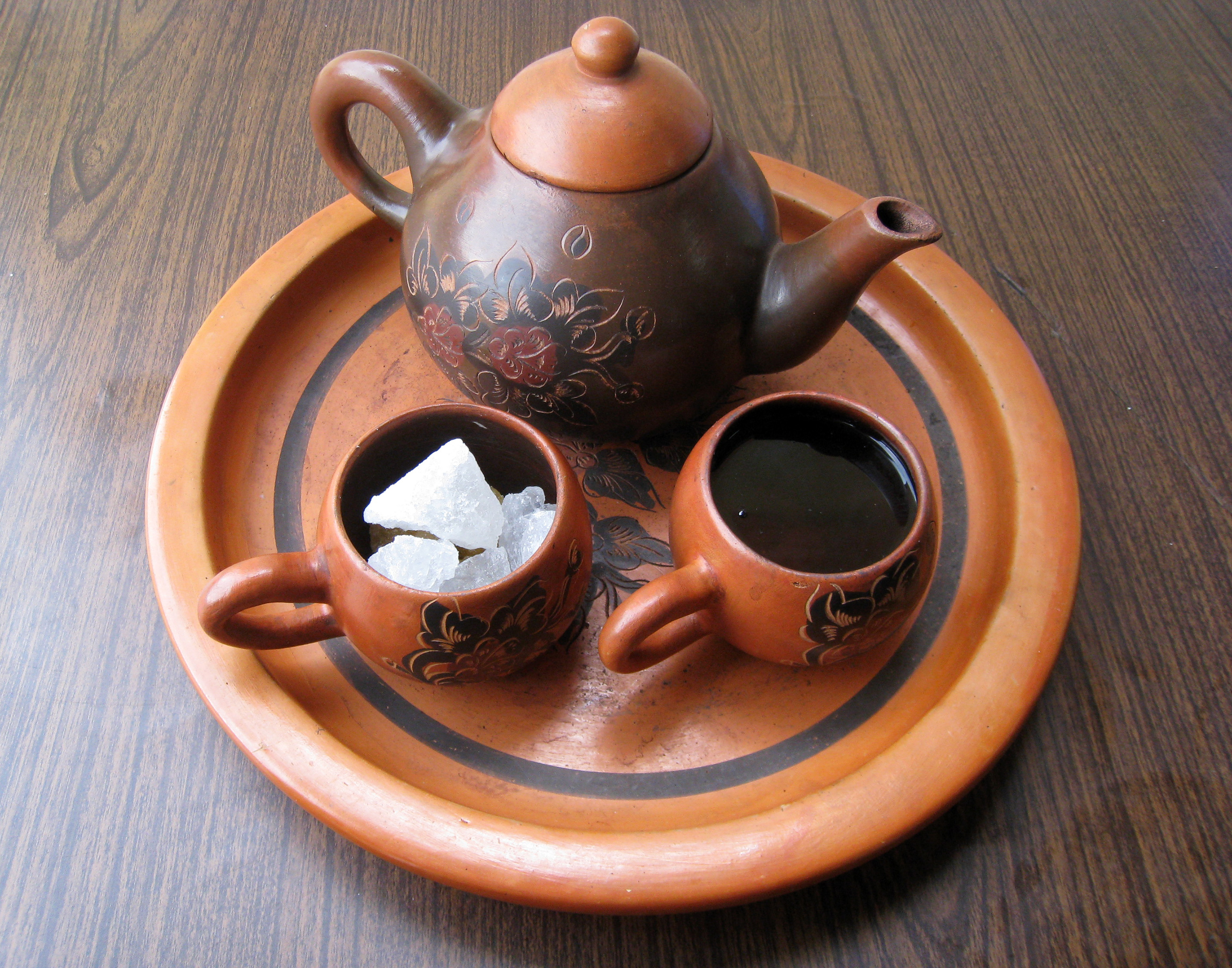 Teh poci gula batu is Indonesian Javanese black tea served in earthenware tea set with rock sugar.